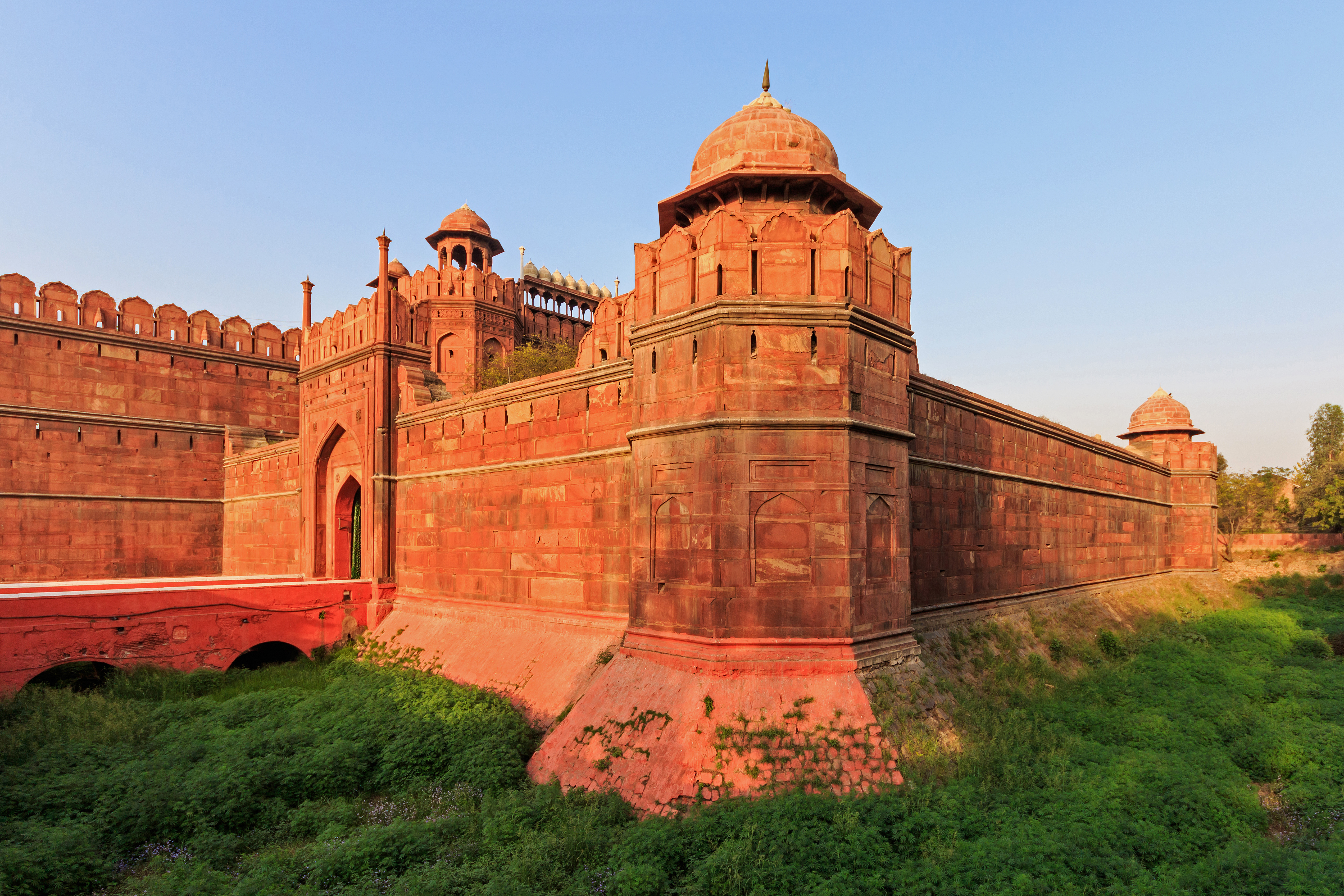 Fortifications of the Red Fort in Delhi, India